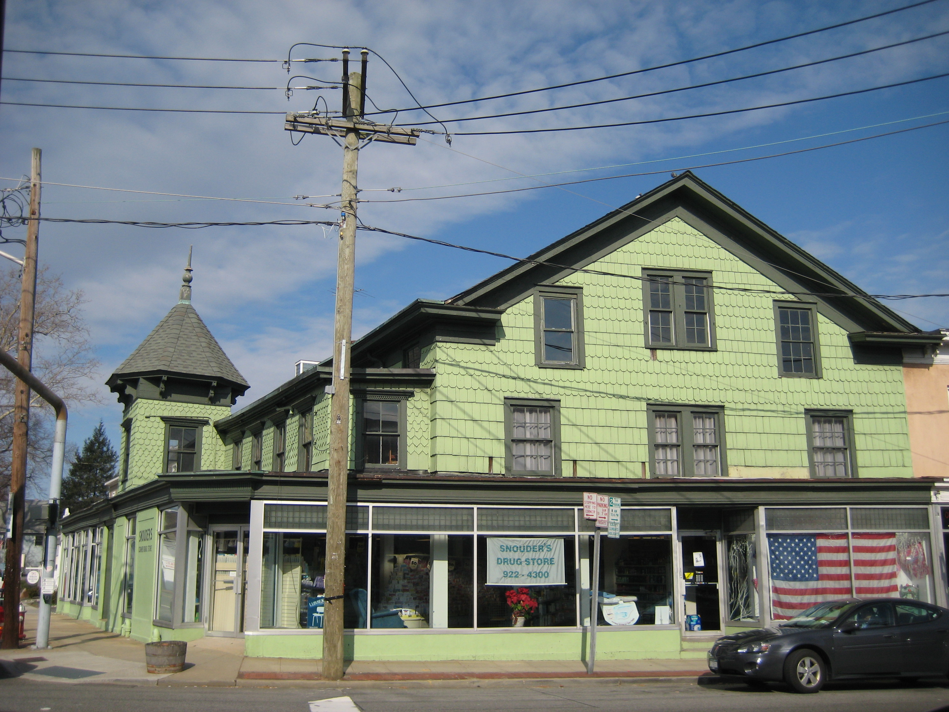 Snouder's Drug Store, Oyster Bay, New York